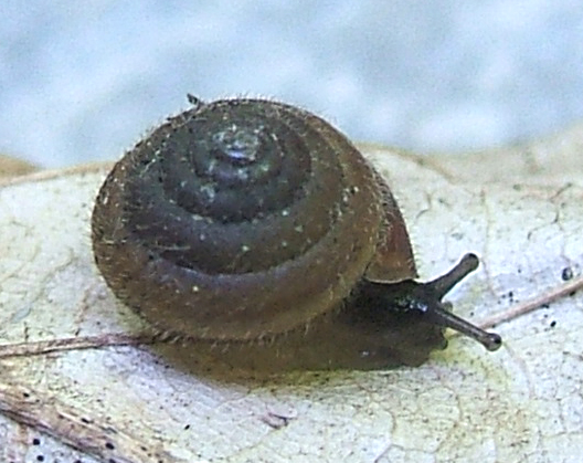 Photo of Petasina unidentata. Locality: Germany: Bayern, N Walchensee village, 900 m. Date: 16-07-2007.